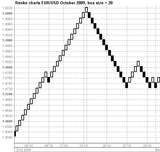 Renko charts EUR/USD October 2009